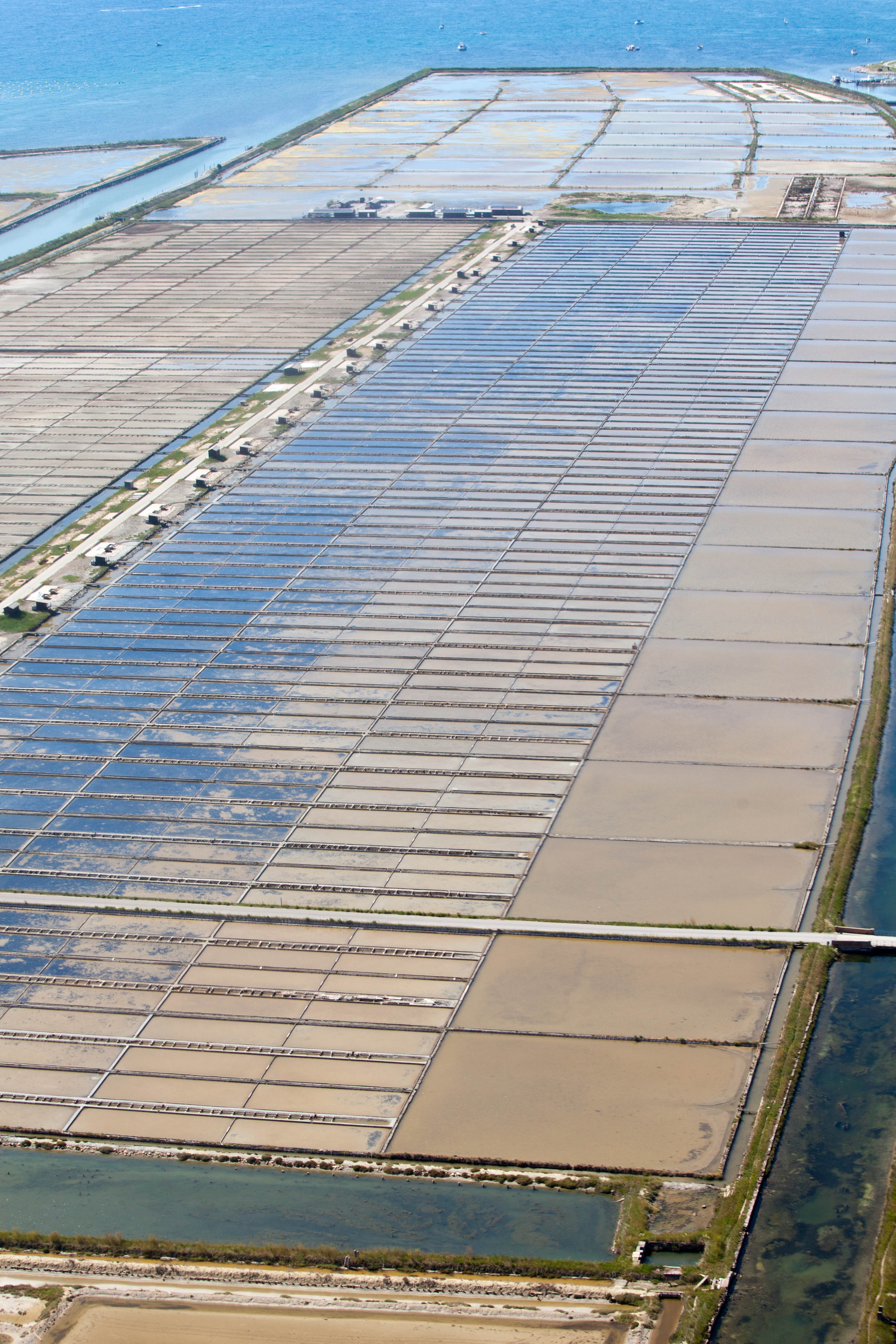 Salt fields near Piran, Slovenia